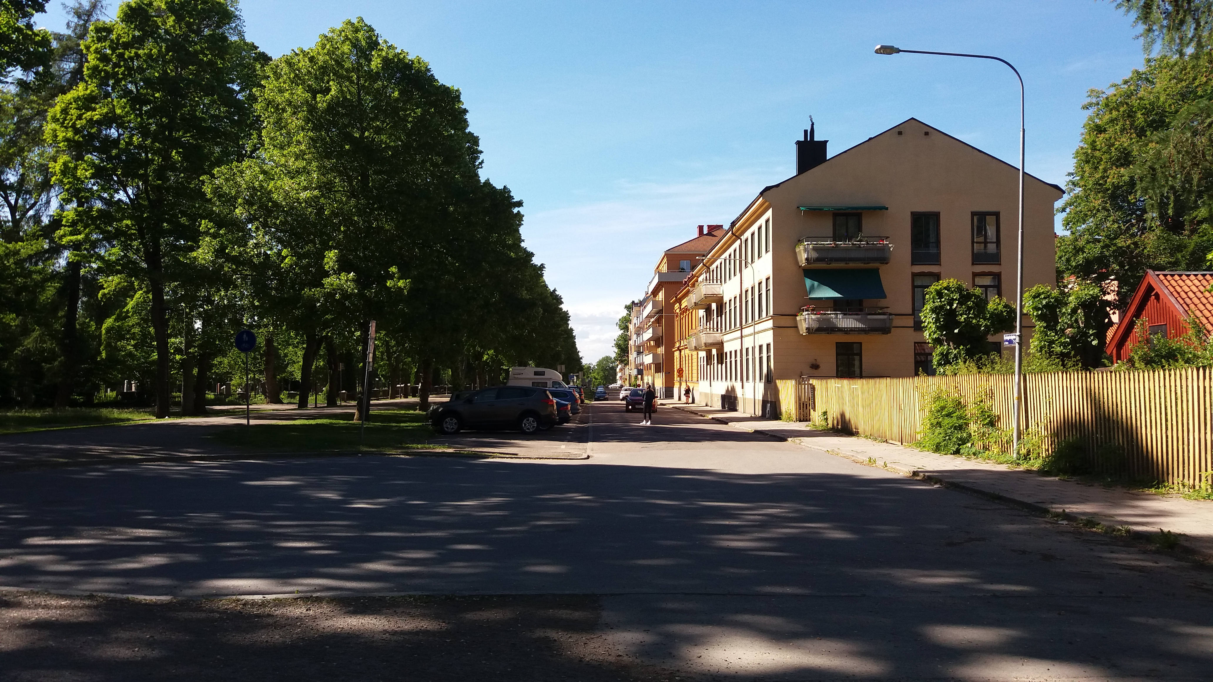 Kyrkogårdsgatan, Uppsala.